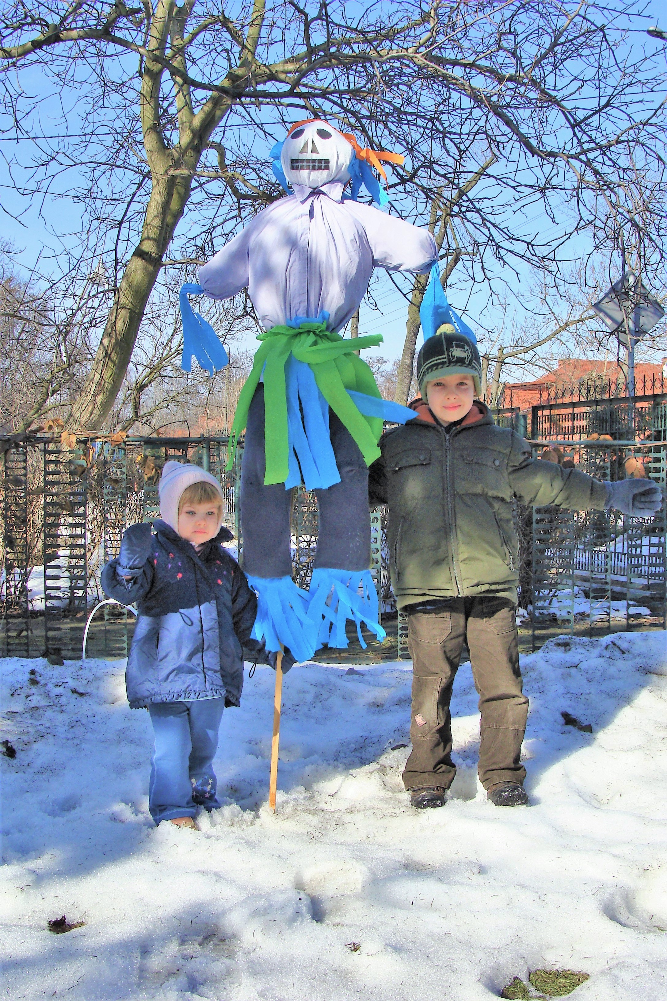 Morana